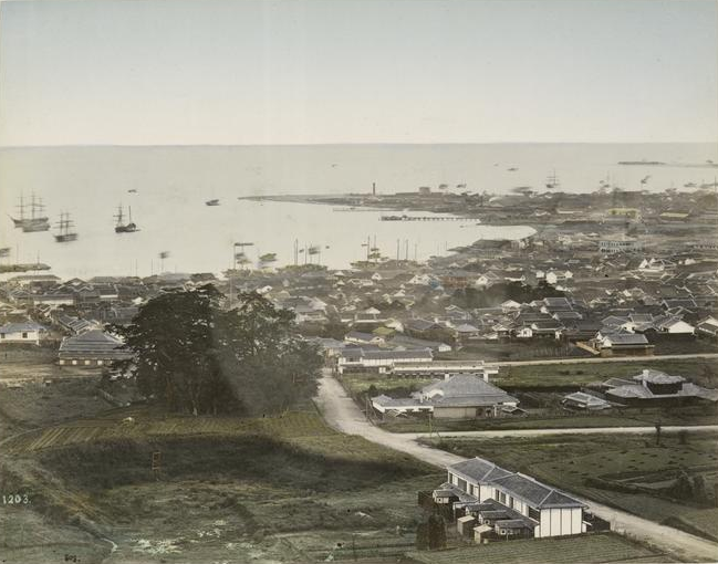 19th century view of Kobe